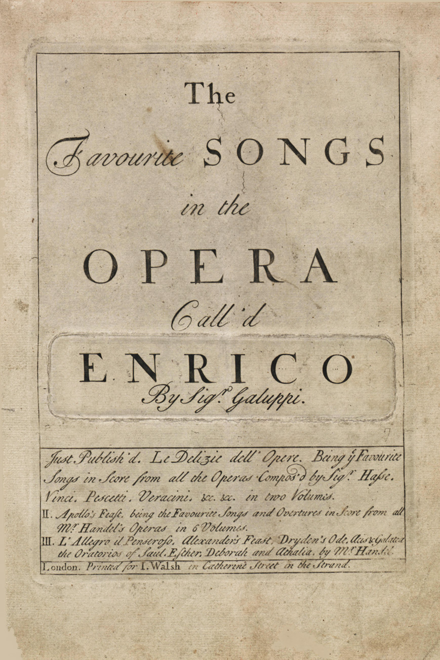 Music by Baldassare Galuppi